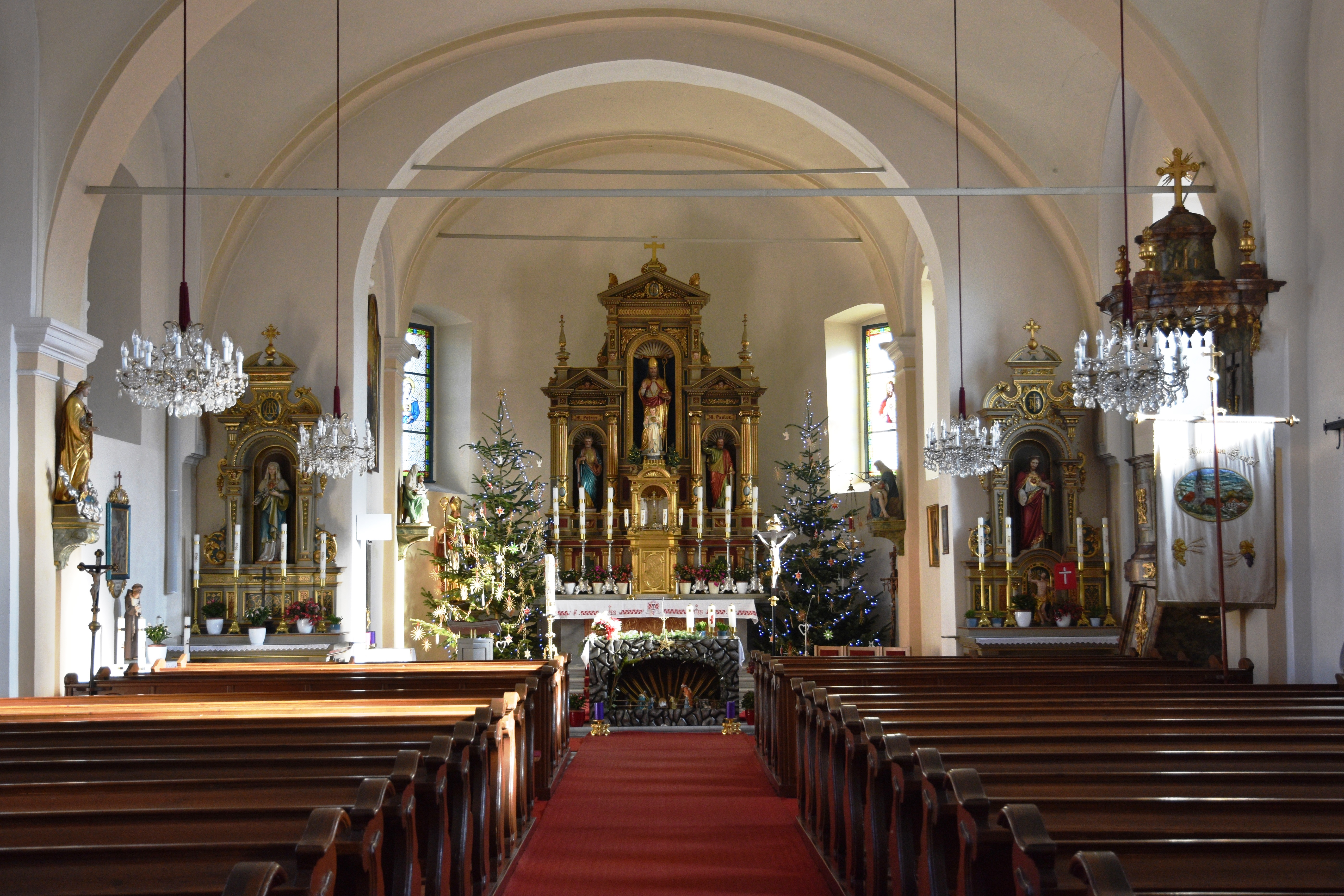 Church Kath. Pfarrkirche hl. Nikolaus (Sankt Nikolai im Sausal) Interior